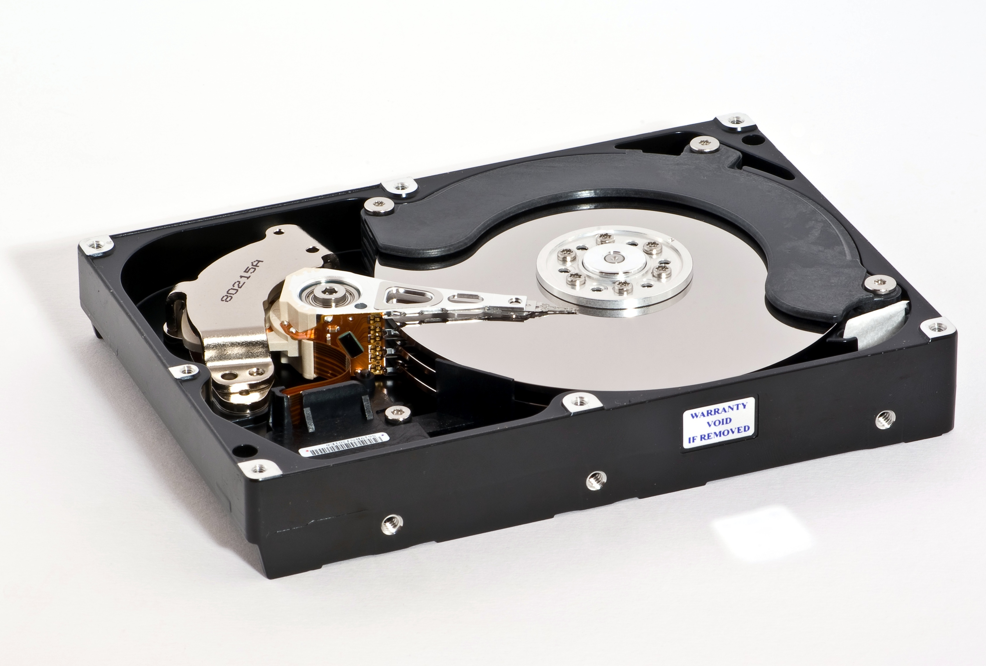 Samsung HD753LJ hard disk (storage capacity: 750 GB; Design: 3.5"; date of manufacture: March 2008). Opened case.